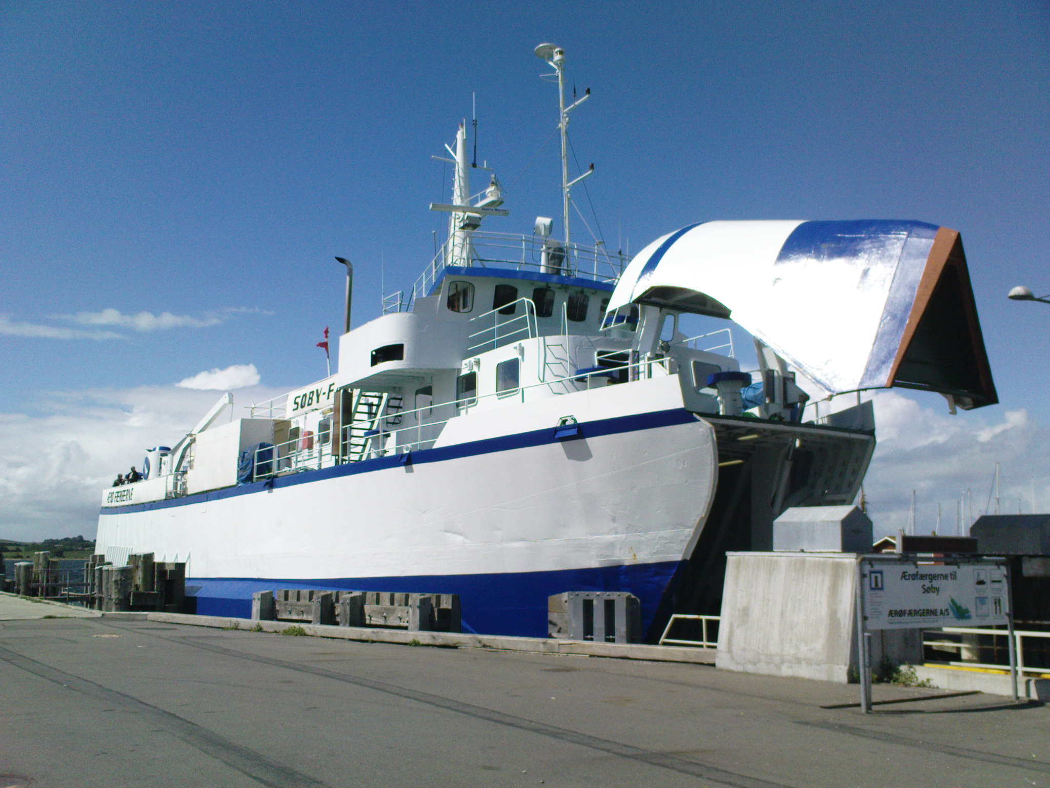 M/S Faaborg III, operated by Ø-Færgen between Faaborg Harbour Avernakkeø and Lyå in the South Funen Archipelago in central Denmark